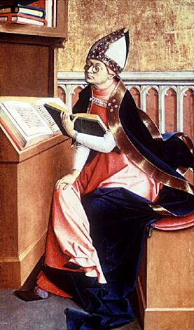 "Augustine of Hippo". Saint Augustine, born in what is now Souk-Ahras, Algeria, in AD 354, brought a systematic method of philosophy to Christian theology. Augustine taught rhetoric in the ancient cities of Carthage, Rome, and Milan before his Christian baptism in 387. His discussions of the knowledge of truth and of the existence of God drew from the Bible and from the philosophers of ancient Greece. A vigorous advocate of Roman Catholicism, Augustine developed many of his doctrines while attempting to resolve theological conflicts with Donatism and Pelagianism, two heretical Christian movements.